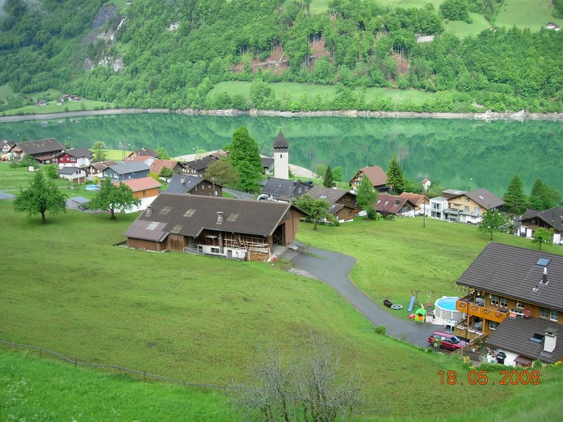 My own work